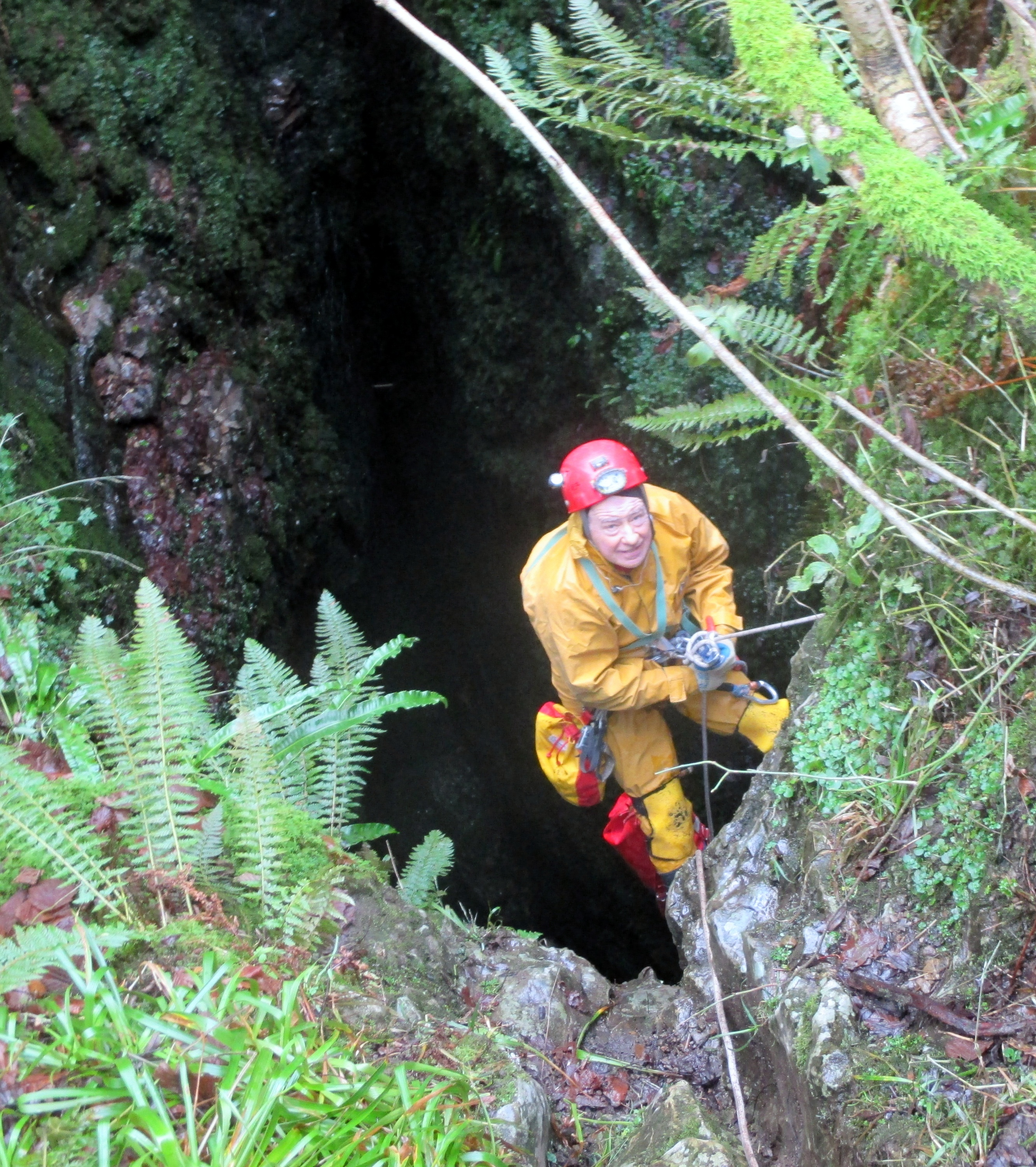 A caver descending the 64 metre deep entrance shaft of Death's Head Hole, on Leck Fell in Lancashire. Death's Head Hole is part of The Three Counties System.